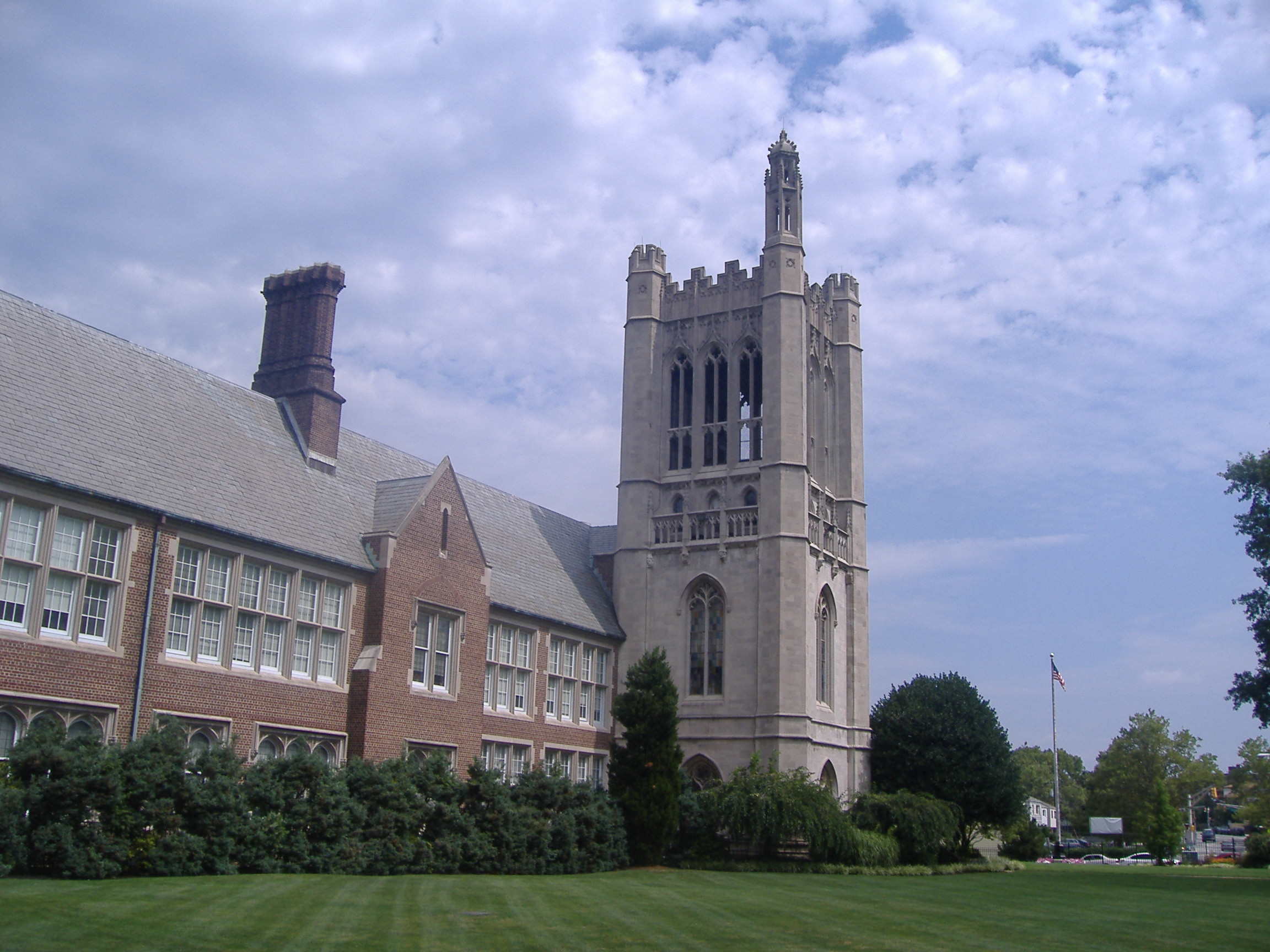 Hepburn Hall at New Jersey City University (NJCU), as seen on July 20, 2010.